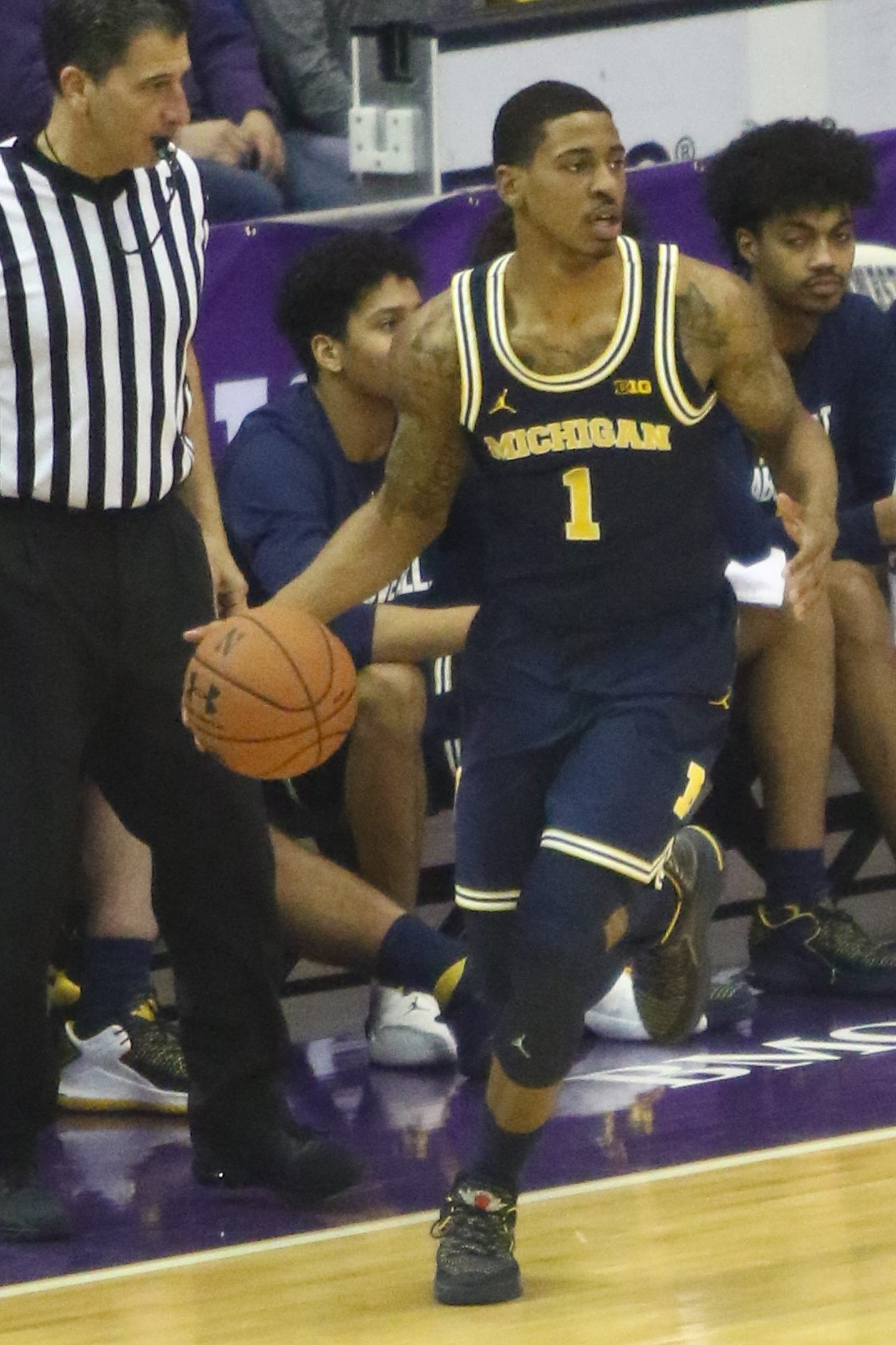 Charles Matthews (basketball) playing for the w:2017–18 Michigan Wolverines men's basketball team at Allstate Arena